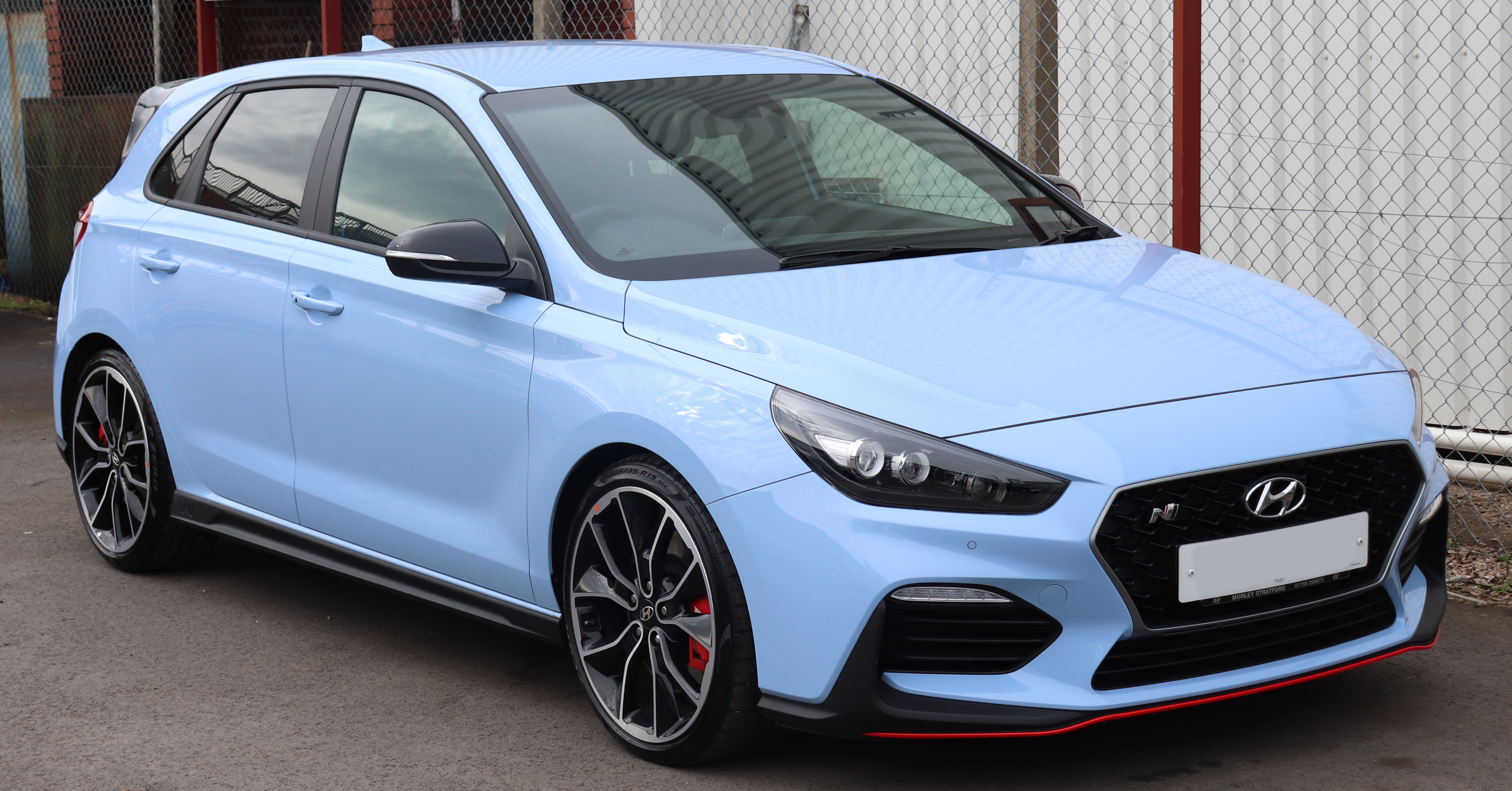 2017 Hyundai i30 N Performance T-GDi 2.0 Front Taken in Stratford-upon-Avon